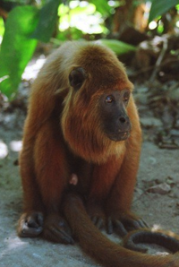 A howler monkey under the care of Comunidad Inti Wara Yassi at Parque Ambue Ari.